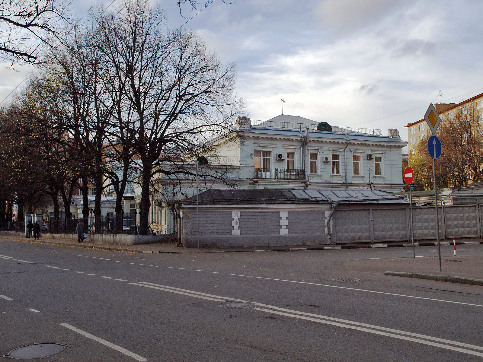 Vorontsovo Pole Street, Moscow.